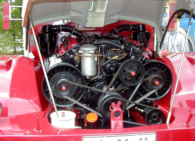 Engine Tatra 111